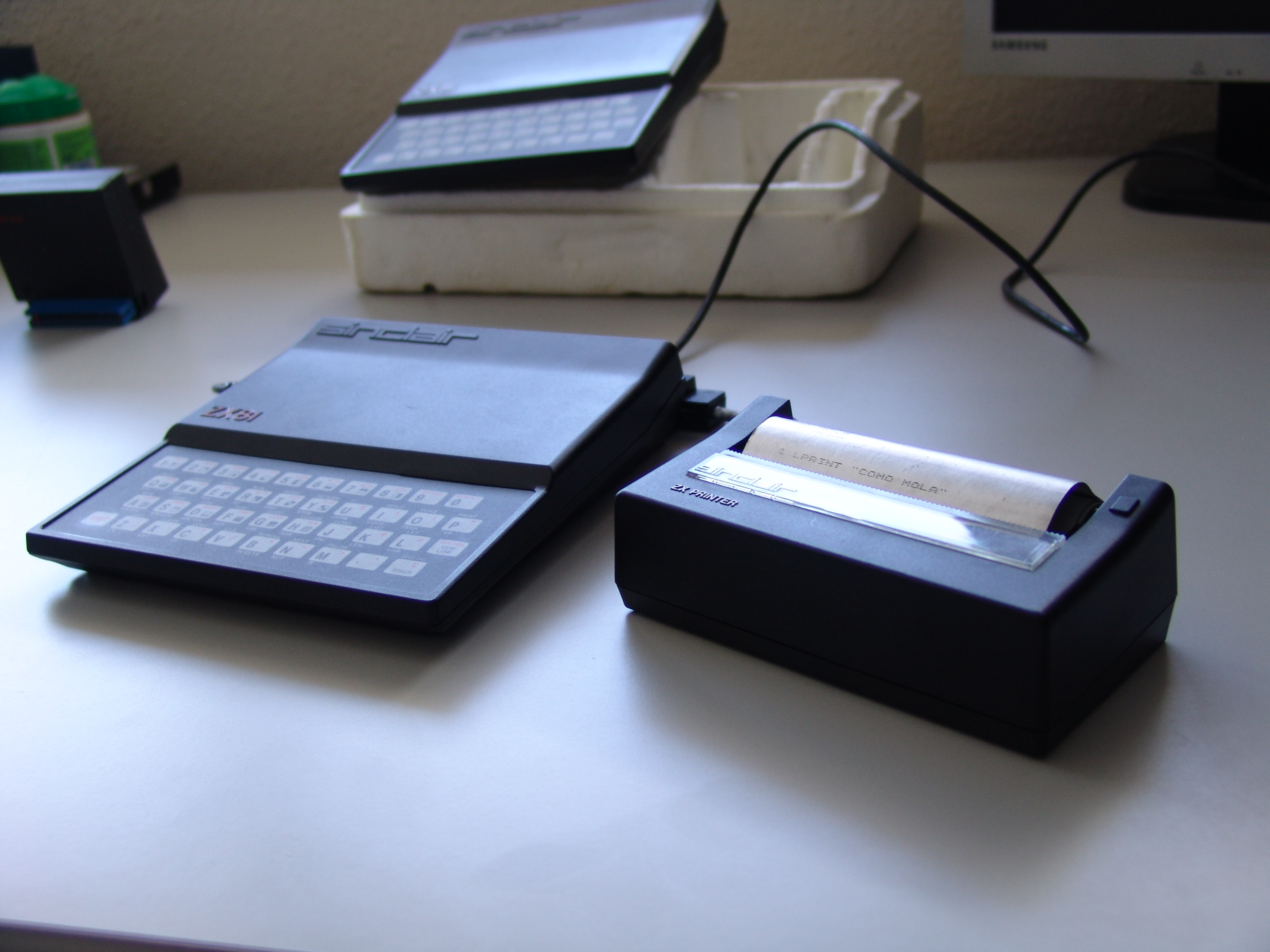 A Sinclair ZX81 with a ZX Printer.